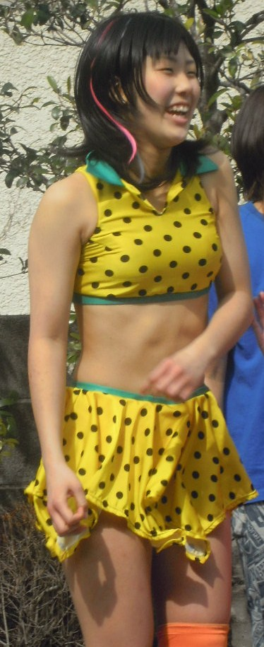 Japanese professional wrestler,Hikari Minami.Mar 6 2011 Ice Ribbon Sangen-jaya.